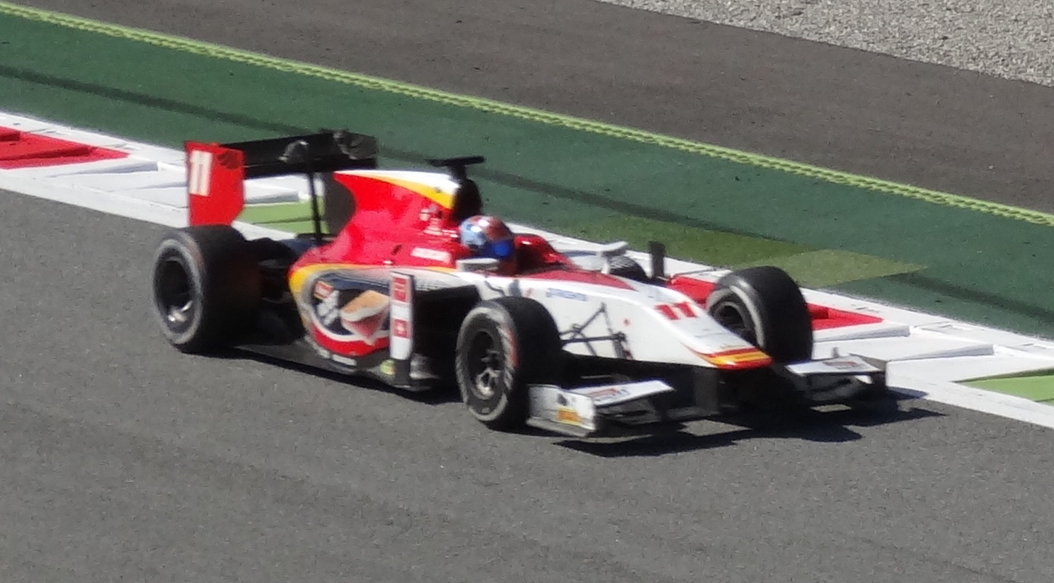 Ralph Boschung Monza F2 2017